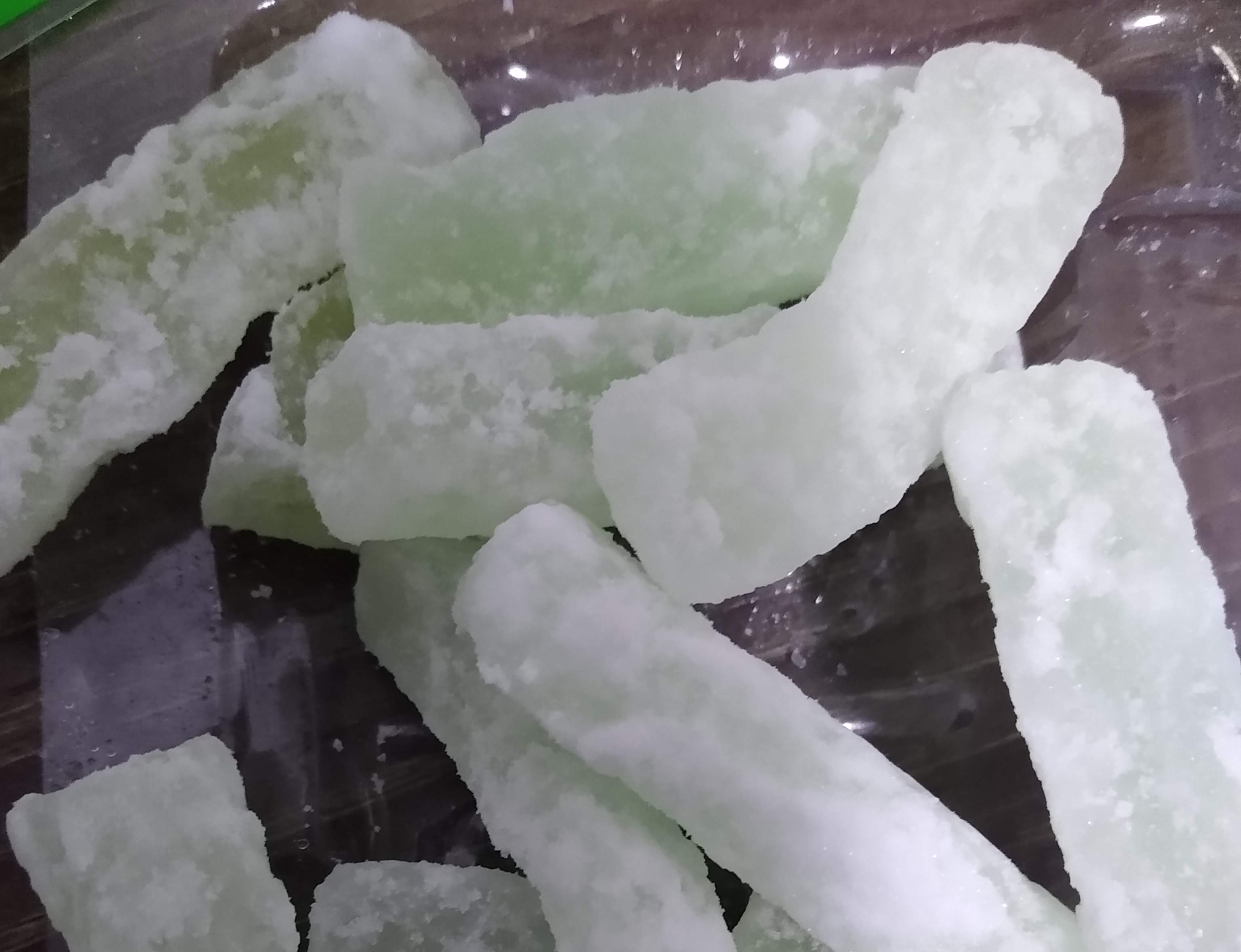 Winter melon candy (冬瓜糖) sold in Guangdong, China.